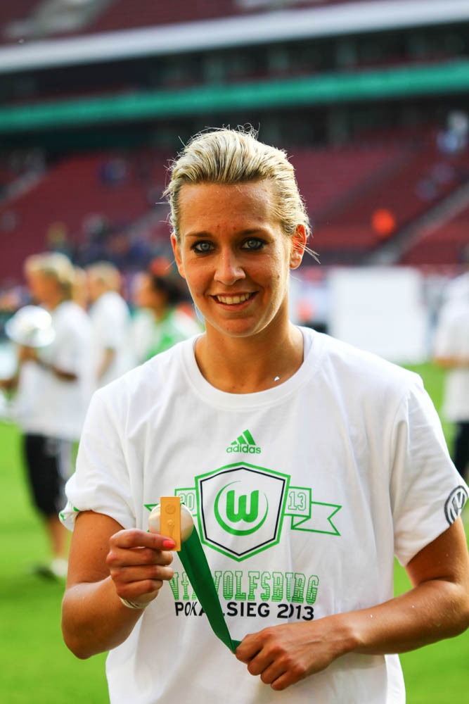 German football player Lena Goeßling, VfL Wolfsburg - after the German cup final 2013